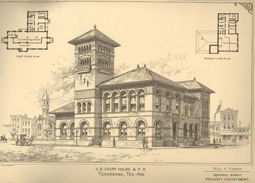 Texarkana, Texas U.S. Court House and Post Office (1889; 1901) Completed in 1892. Supervising Architect: Willoughby J. Edbrooke The U.S. District Court for the Eastern District of Texas met here from 1903 until 1911; the U.S. Circuit Court for the Eastern District of Texas met here from 1903 until 1911; the U.S. District Court for the Eastern District of Arkansas met here until the 1897 reorganization of the Arkansas judicial districts; the U.S. District Court for the Western District of Arkansas met here from 1897 until 1930; the U.S. Circuit Court for the Eastern District of Arkansas met here until the 1897 reorganization of the Arkansas judicial districts; the U.S. Circuit Court for the Western District of Arkansas met here from 1897 until that court was abolished in 1912. Razed in 1930.